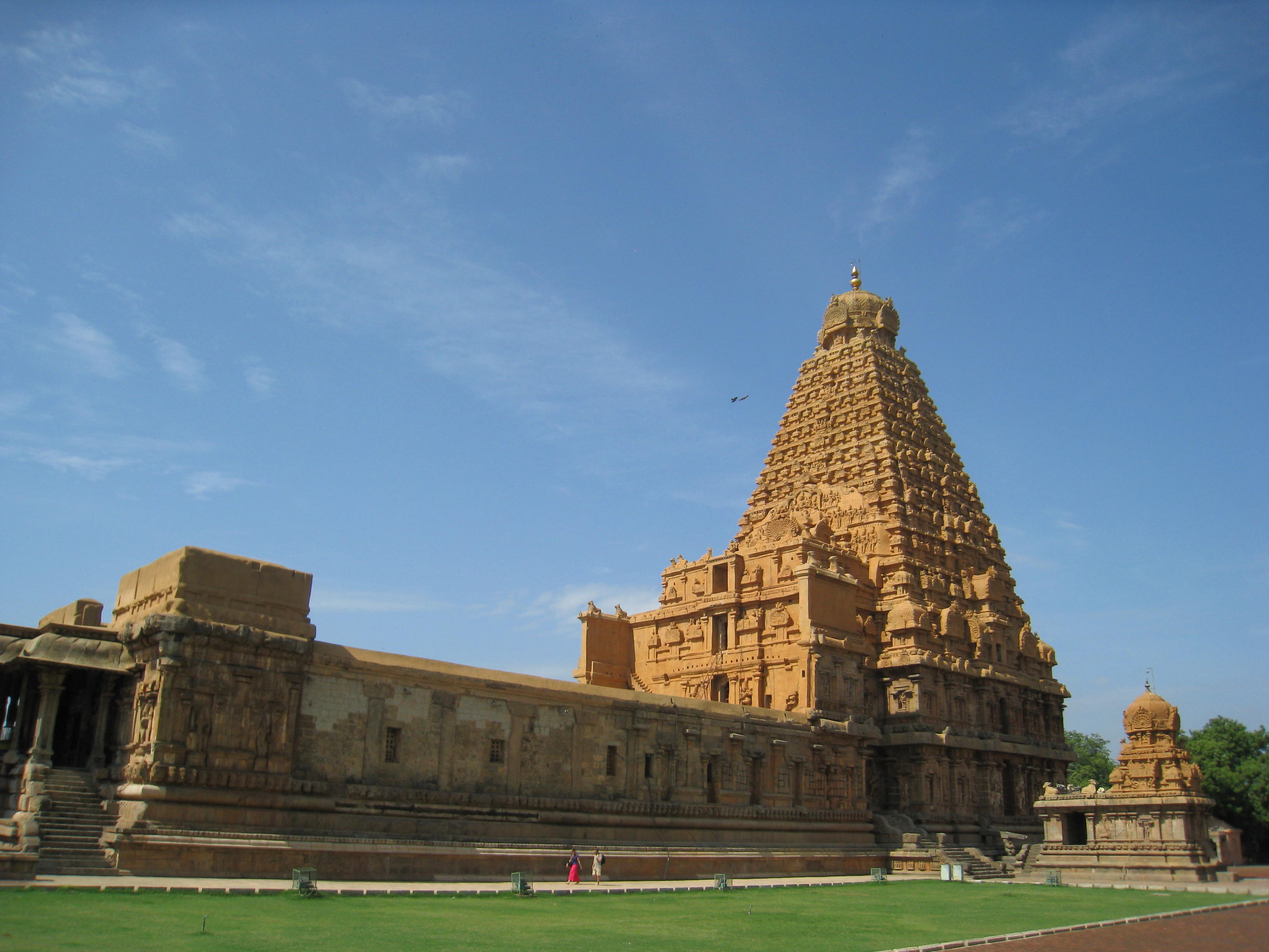 Side profile, Brihadeeswara